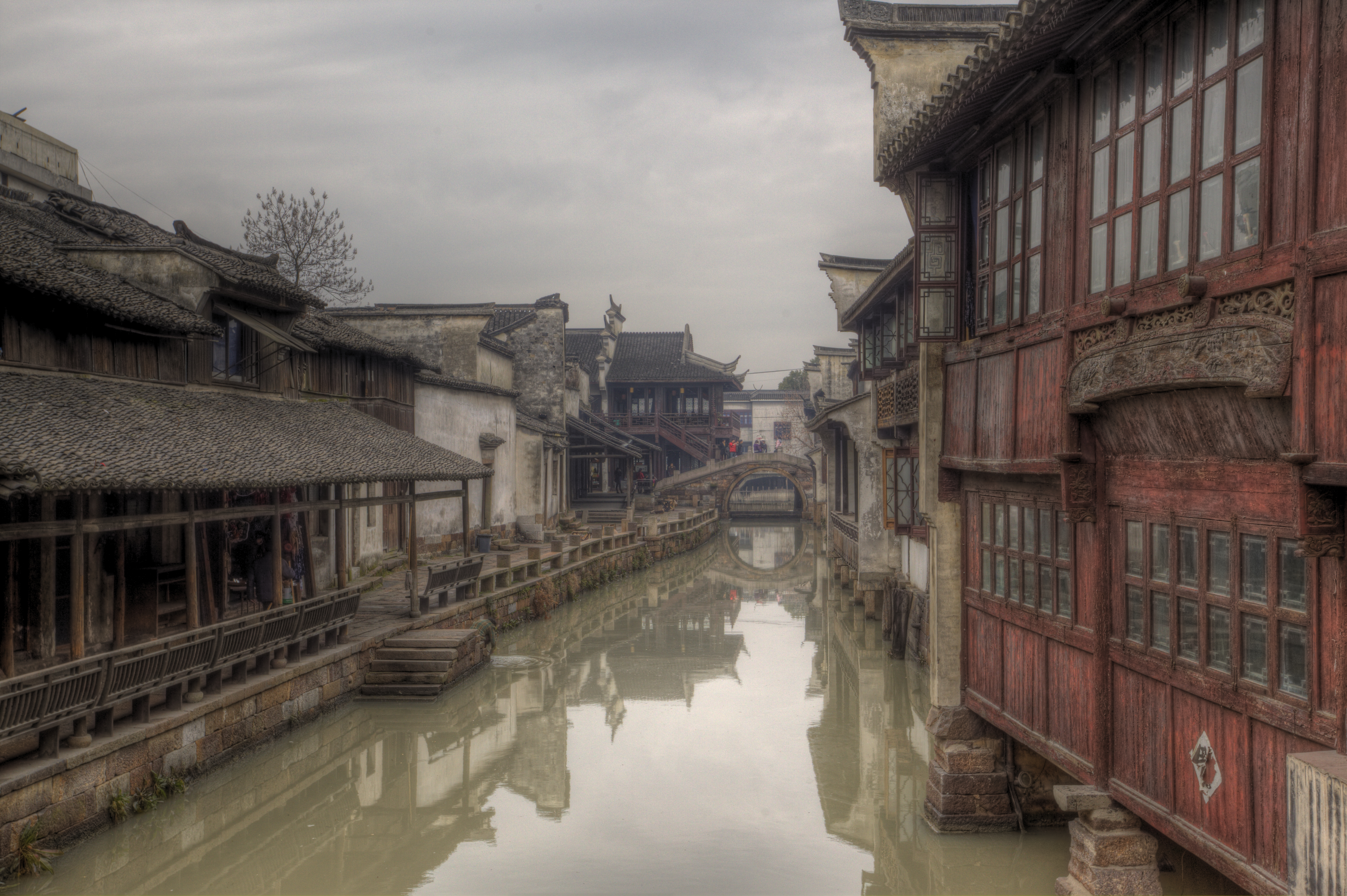 Waterway in Wuzhen